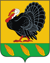 Khopyorskoe (Krasnodar krai), coat of arms